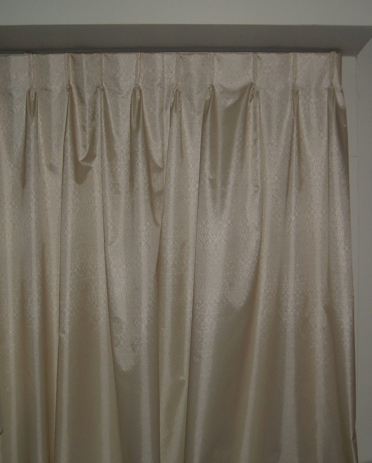 Curtains with pinch pleated heading. One of a series of common objects I photographed in the summer of 2005 to illustrate Basic English picture wordlist. --agr 21:08, 3 August 2005 (UTC)